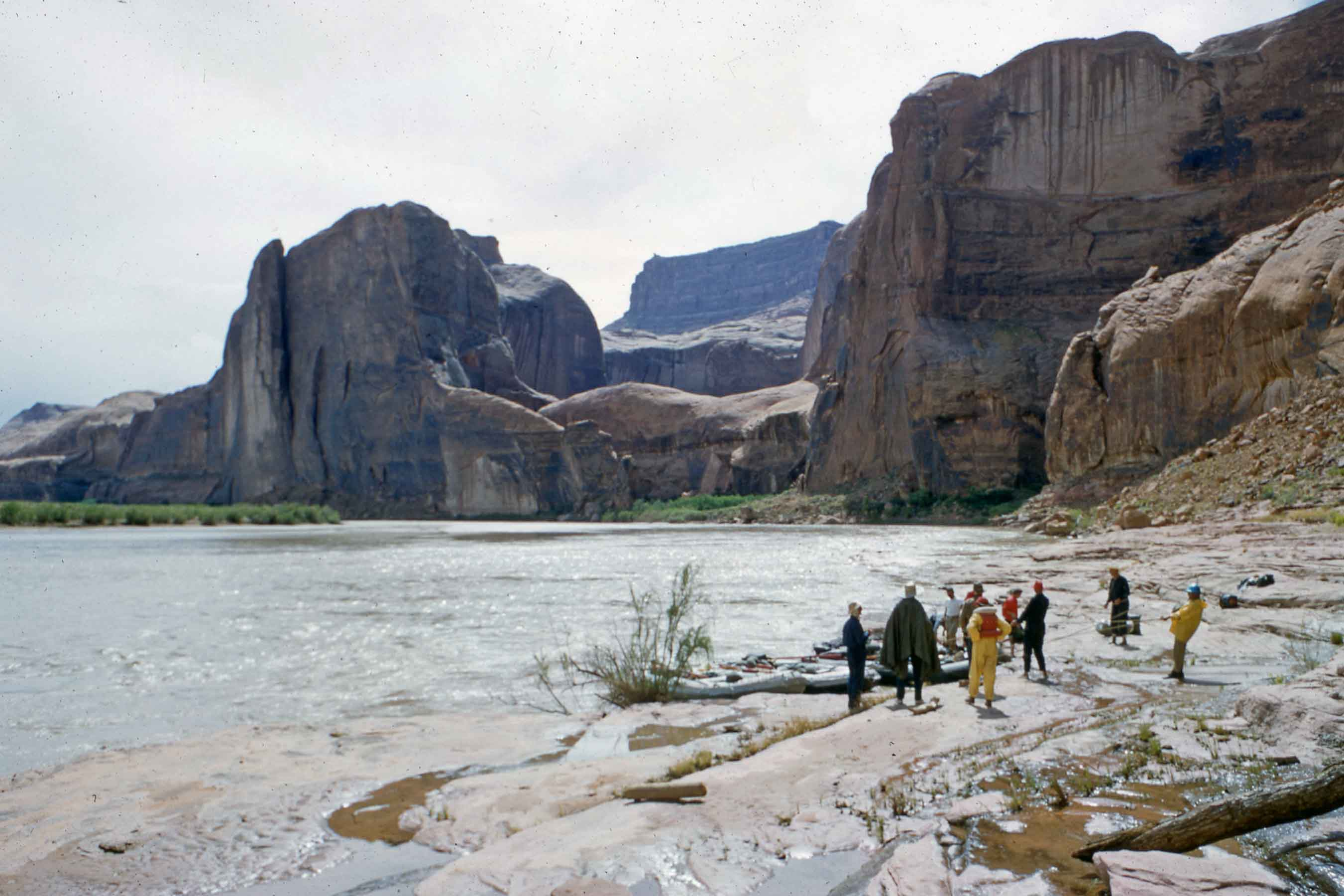 Downstream view taken on the bank of the Colorado River in Glen Canyon of Hidden Passage Canyon before the construction of Glen Canyon Dam